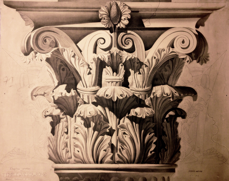 Corinthian Capital from the Temple of Vesta, Wahbi al-Hariri-Rifai, 1945. This drawing was submitted by Wahbi al-Hariri-Rifai as part of his application for admission at the Beaux-Arts with consideration for advanced standing given his fine arts degree from the Accademia di belle arte di Roma, which would allow him to forego the Beaux-Arts' notorious preadmission novitiate.